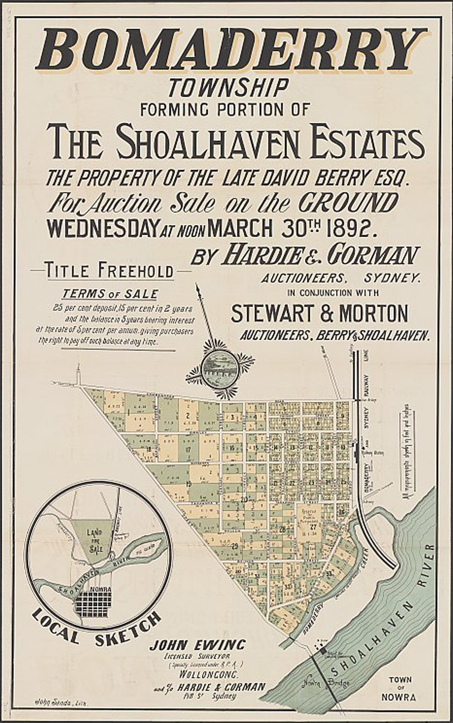 Subdivision map of Bomaderry, NSW in 1892 when the town was first created.